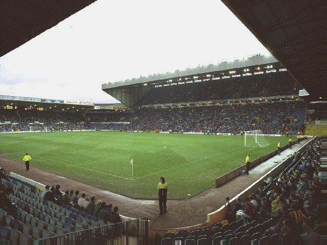 Leeds United's Home Ground Elland Road, seen from the South-west corner